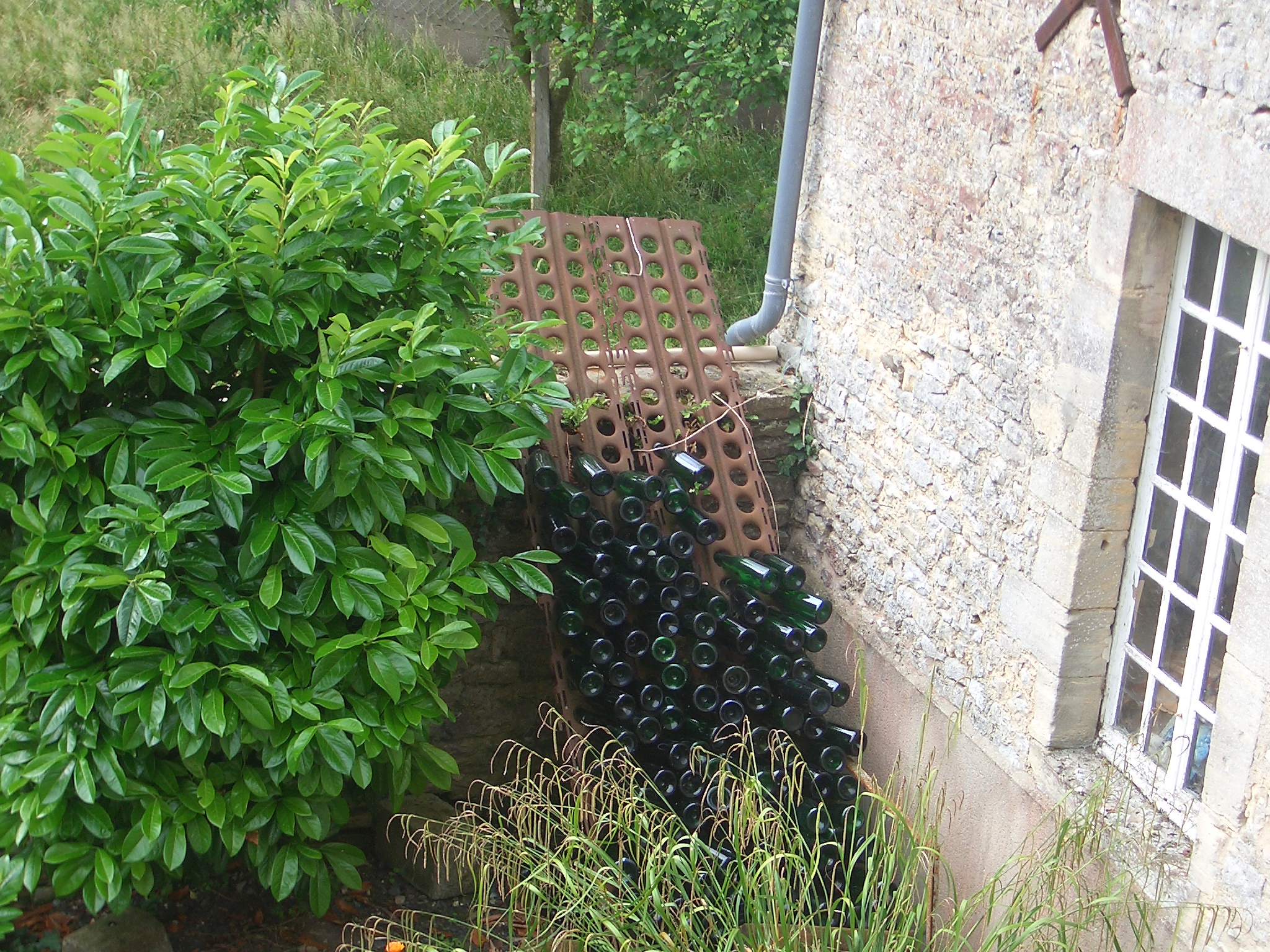 Marsden Matting repurposed for storage of empty wine bottles on a farm in Normandy